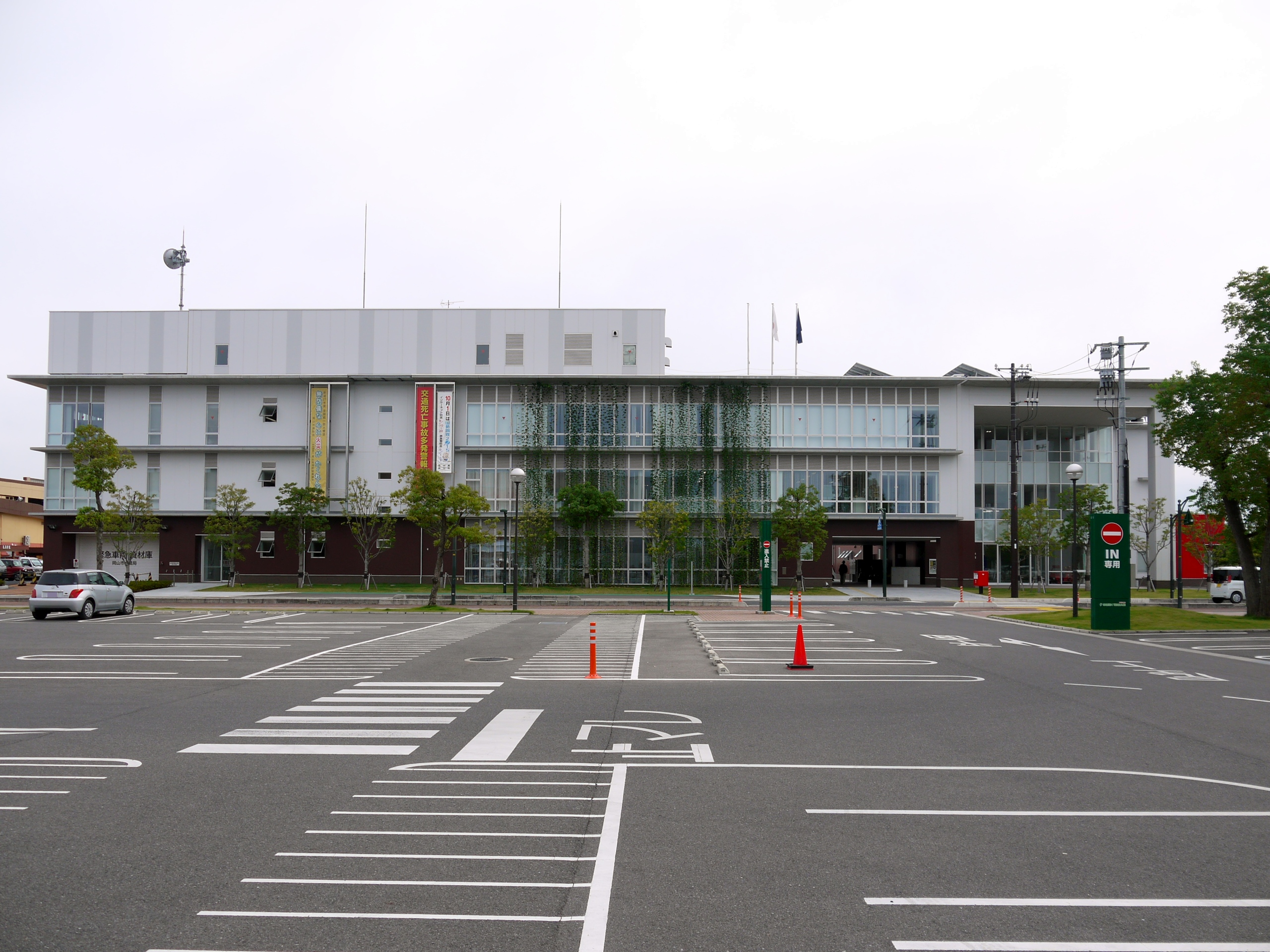 Okayama city Higashi ward office (since November 25, 2014)